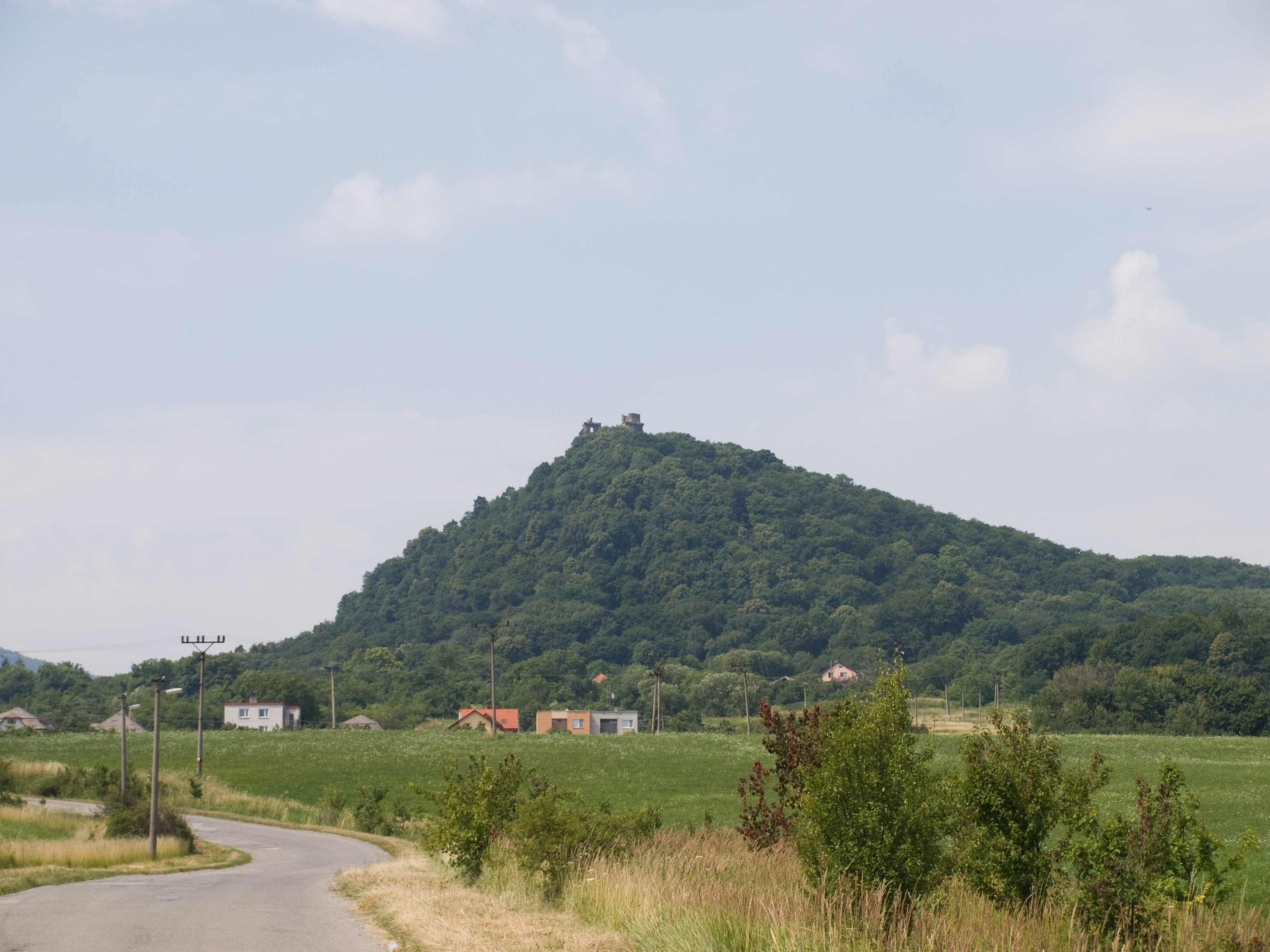 View to castle, Slanec, Košice-okolie District